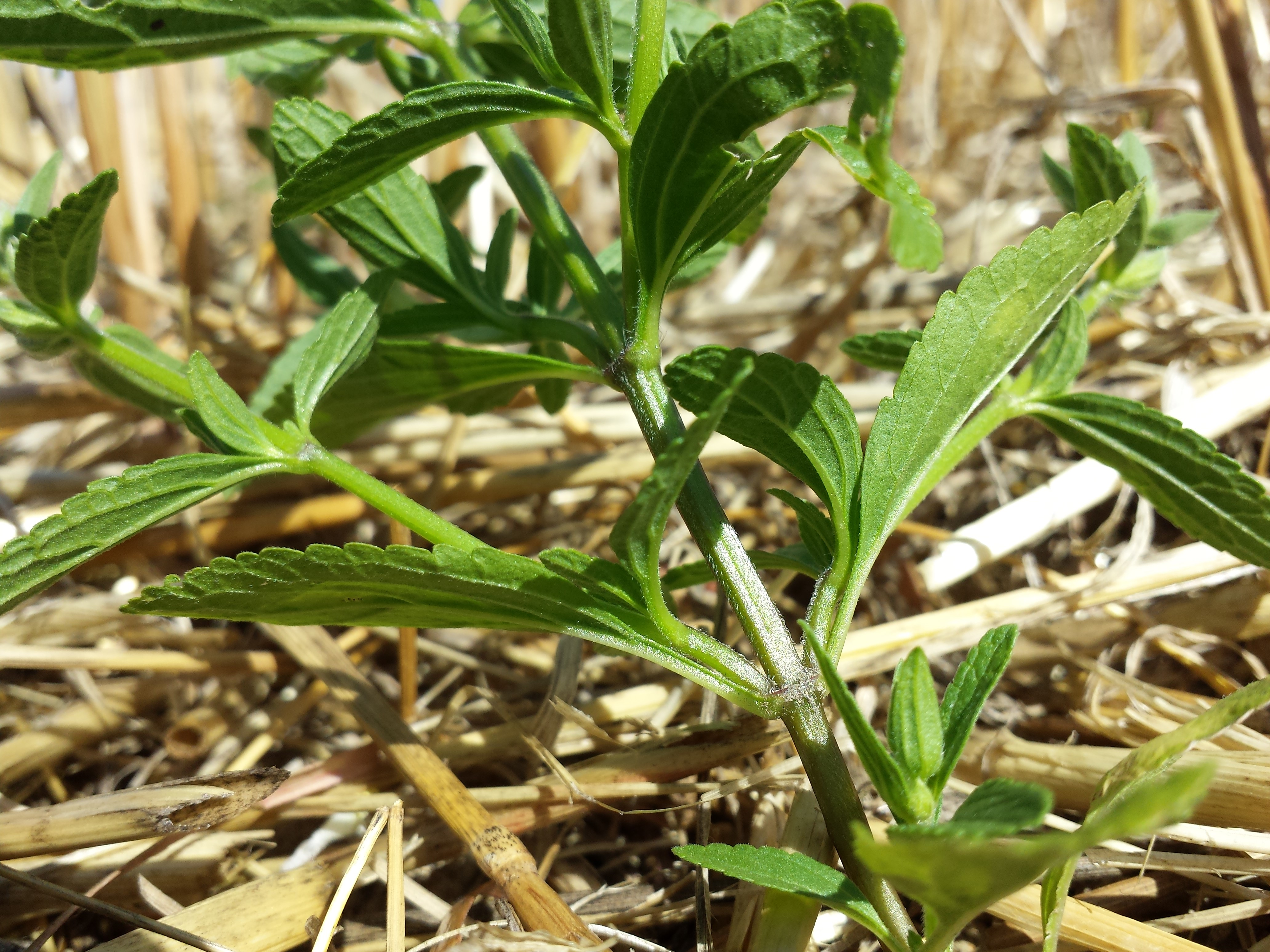 Stipe with leaves Taxonym: Stachys annua ss Fischer et al. EfÖLS 2008 ISBN 978-3-85474-187-9 Location: Haulesbergen, district Mistelbach, Lower Austria - ca. 200 m a.s.l. Habitat: field